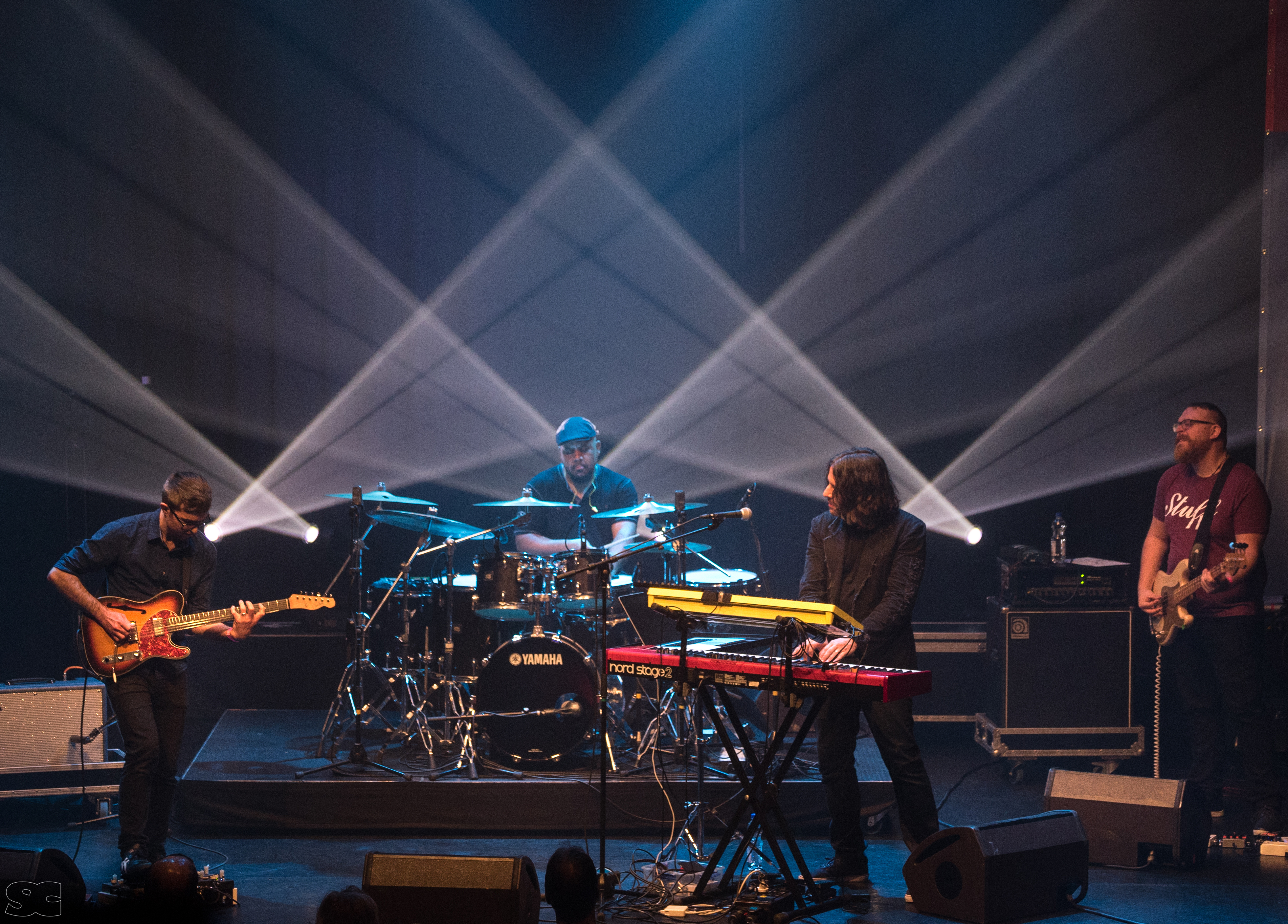 Forq, live in concert in the Hague, NL. Photo by Sophie Conin